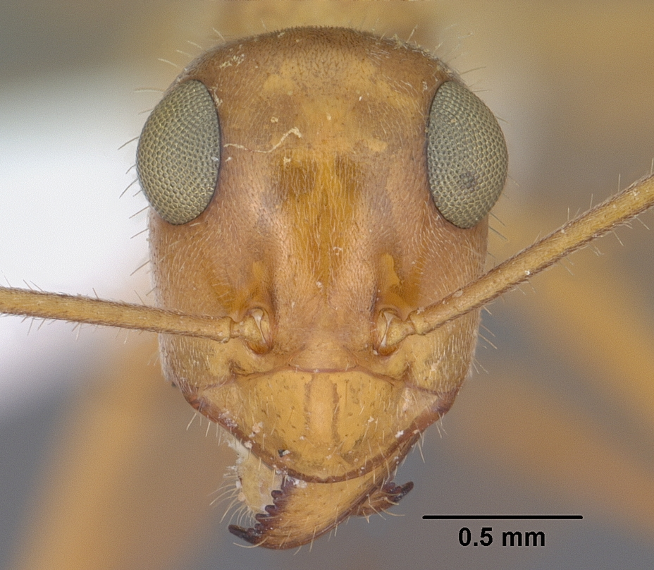 Head view of ant Myrmecocystus mexicanus specimen casent0102814.